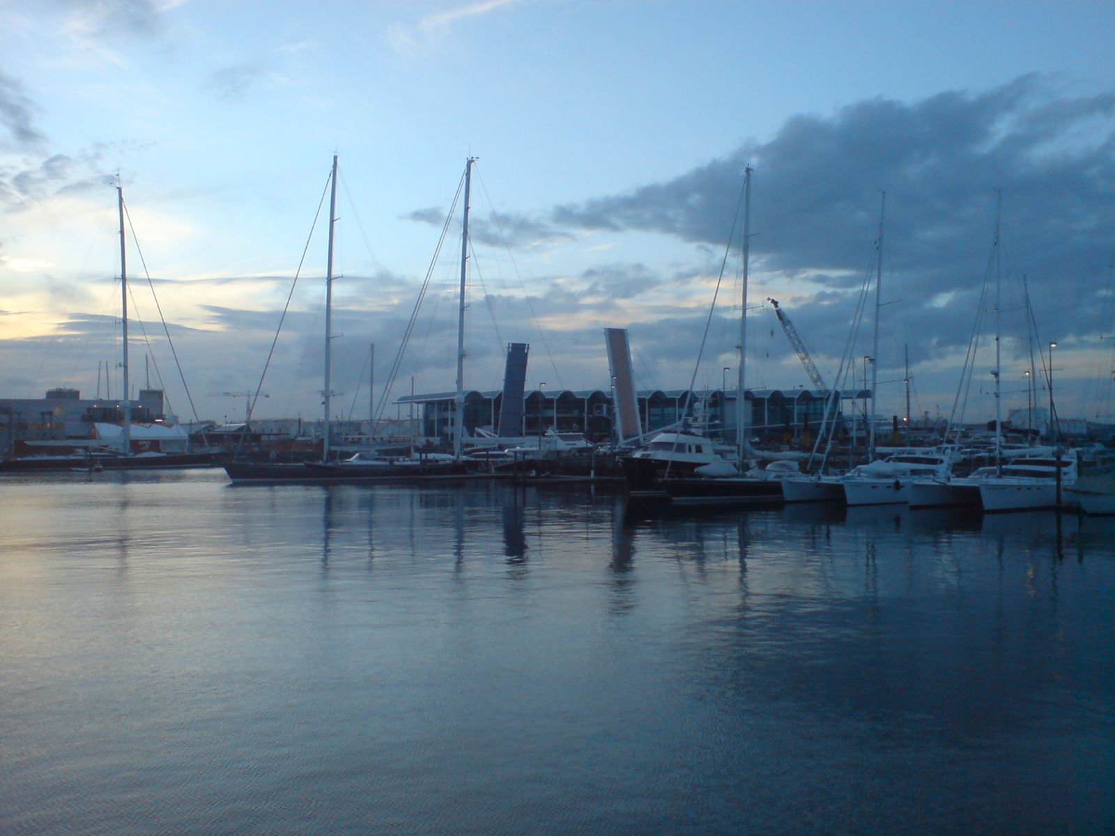 The new Wynyard Crossing walking / cycling bridge leading west from Te Wero Island in Auckland, New Zealand. Looking northwest across the Viaduct Basin. At this stage, the bridge is not usable yet, and the bridge spans are fixed in opened position.